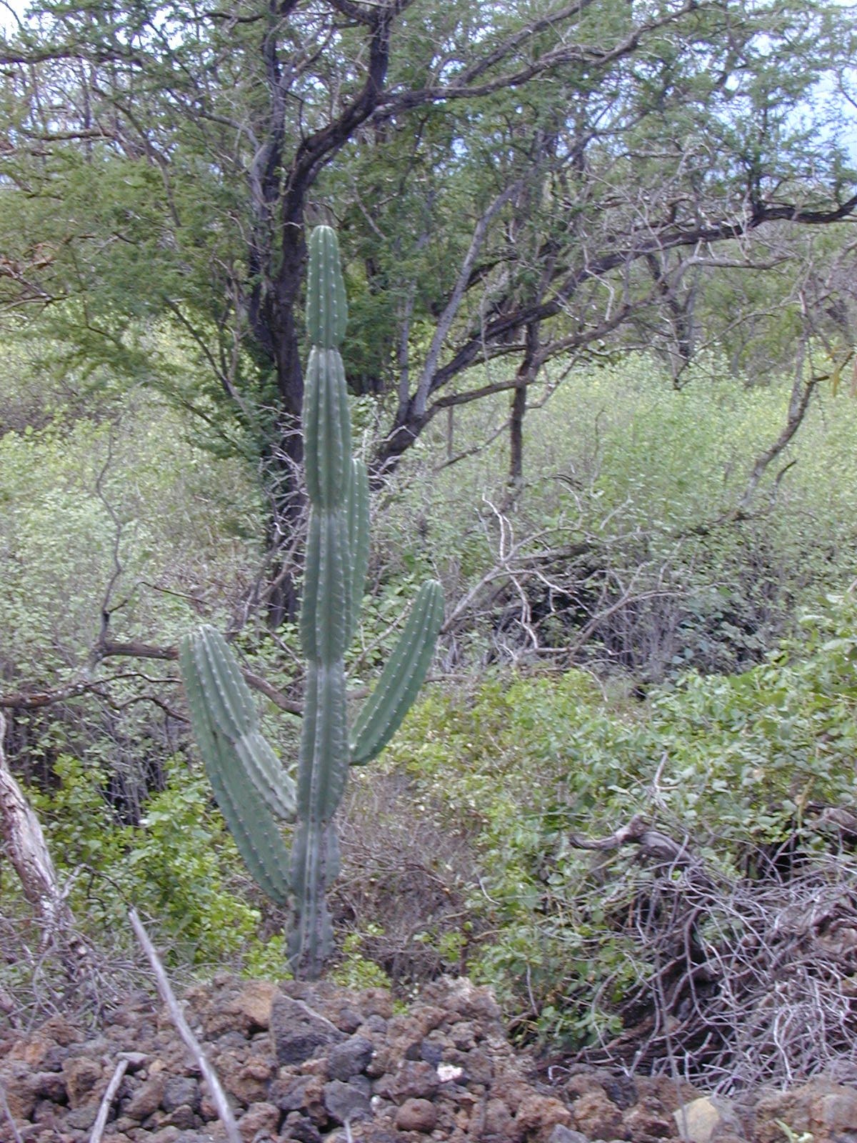 Cereus uruguayanus (habit). Location: Maui, Wailea 670